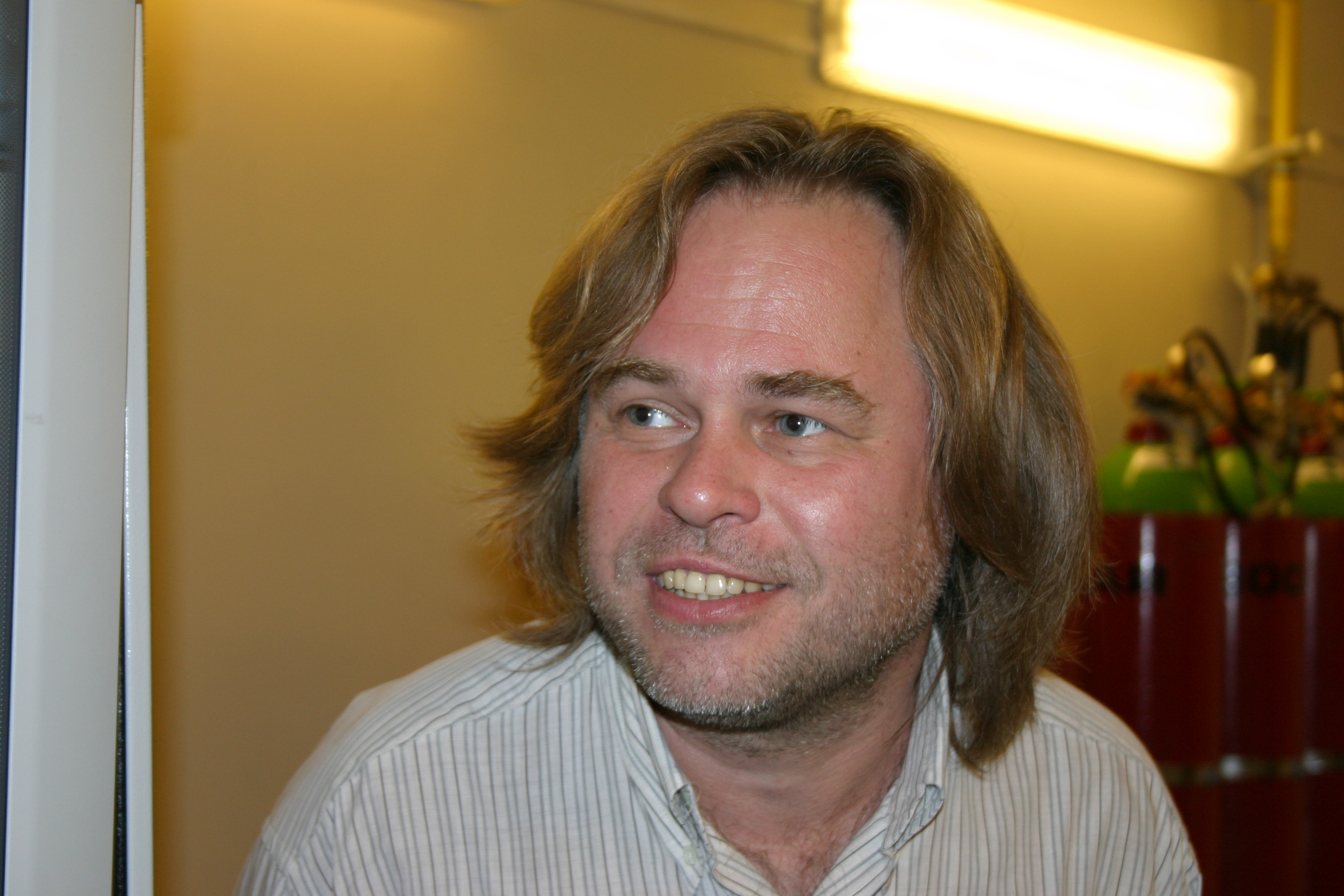 Photo of Eugene Kaspersky, founder of Kaspersky laboratory